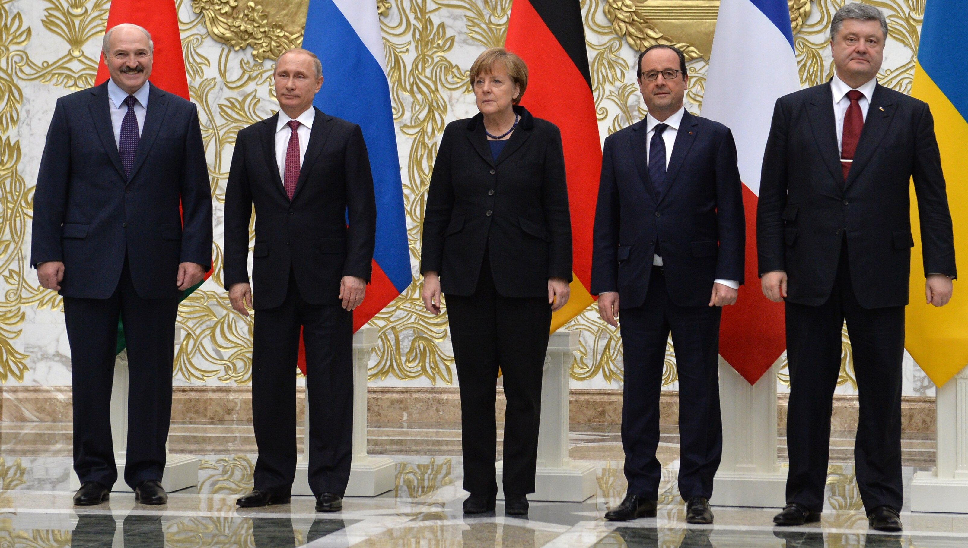 Normandy format talks in Minsk (February 2015): Alexander Lukashenko, Vladimir Putin, Angela Merkel, Francois Hollande, and Petro Poroshenko take part in the talks on a settlement to the situation in Ukraine.